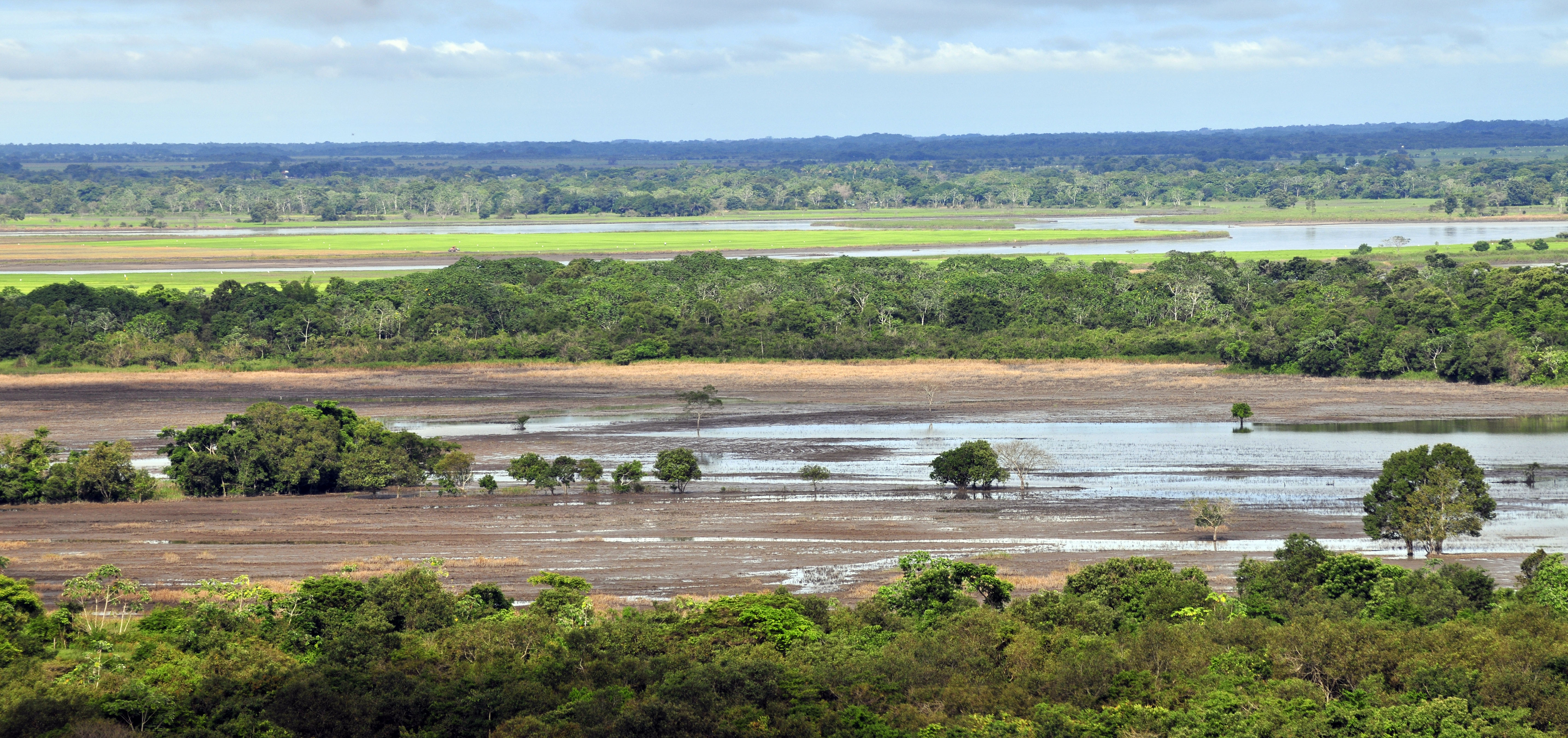 Pic by Neil Palmer (CIAT). Colombia's eastern plains, or Llanos